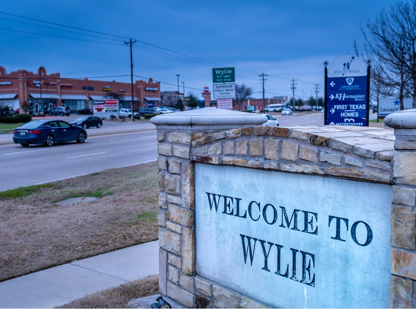 This is a stone mural showing a welcoming message to visitors coming to Wylie on FM 544